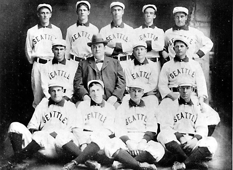 On verso of image: Seattle, 1902, Northwest League, Manager Dan Dugdale, center left Subjects (LCTGM): Group portraits Subjects (LCSH): Baseball teams--Washington (State)--Seattle